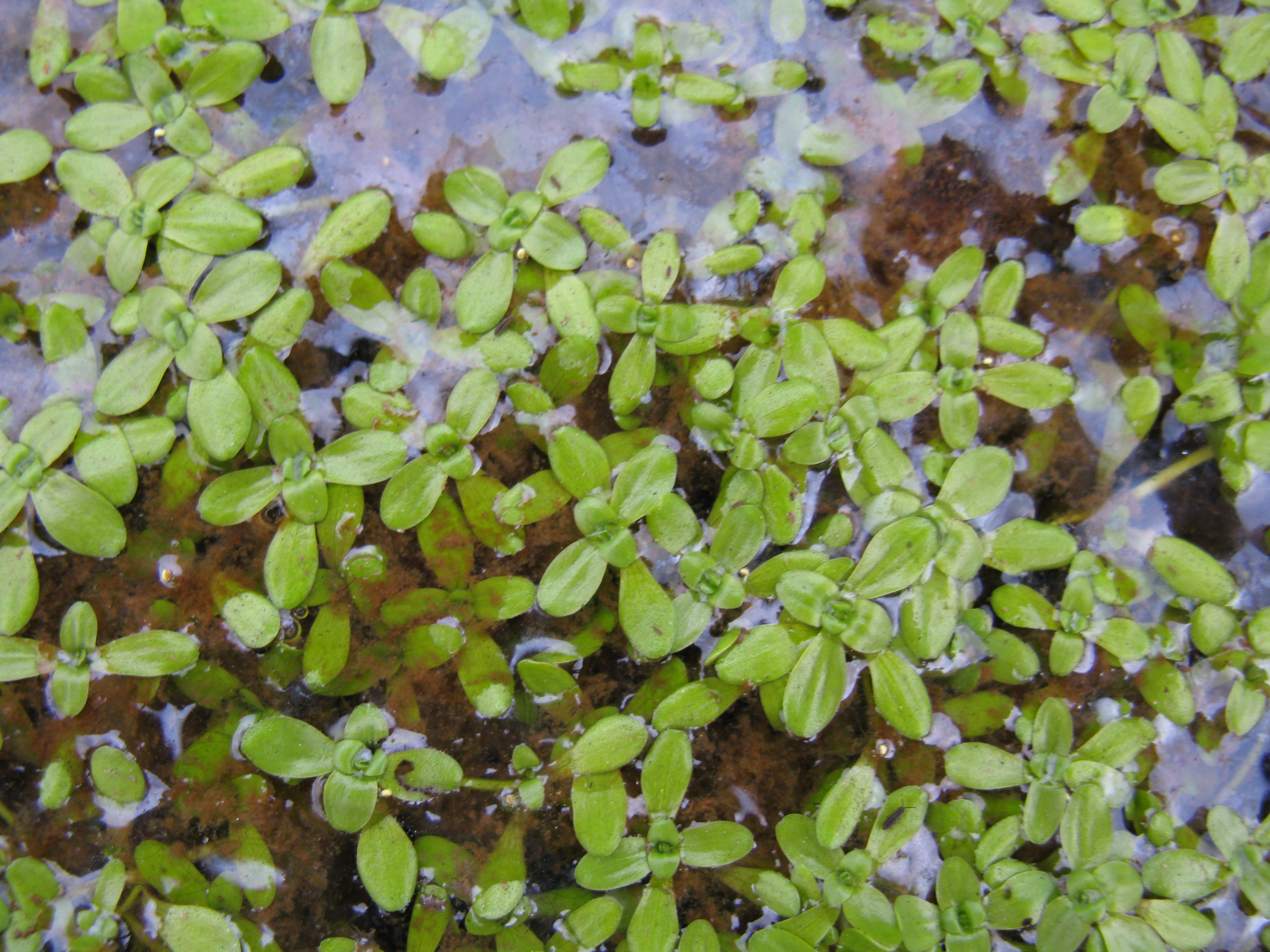 Introduced, spreading, submerged or mat-like, semi-aquatic hairless herb. Leaves are variable, mostly linear-spathulate, spathulate or obovate, 2–25 mm long, but mostly about 10 mm long and 5 mm wide, 3–7-veined. Flowers are usually paired with one of each sex but sometimes solitary. Fruit are subsessile, usually slightly longer than broad and about 1.5–2 mm wide. A native to Europe and northern Africa, it is now a widespread weed of freshwater wetlands, slow-moving waterways, lakes, dams, drains and artificial water bodies in the temperate regions of Australia.